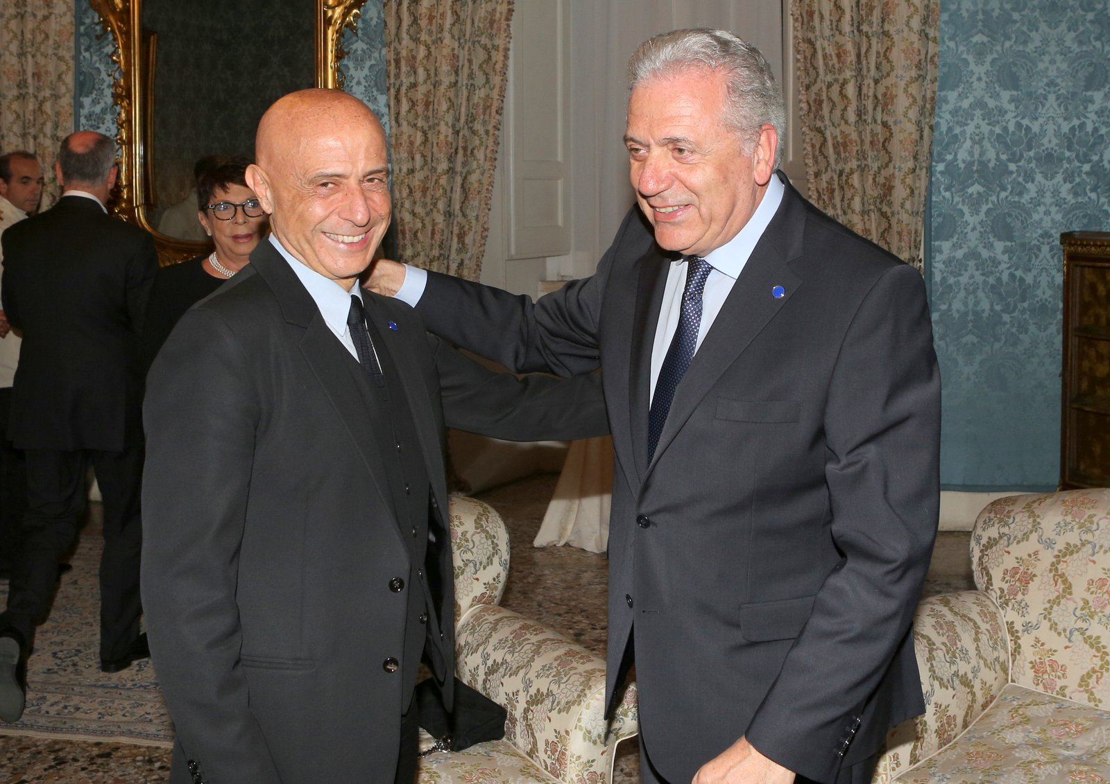 Marco Minniti and Dimitris Avramopoulos